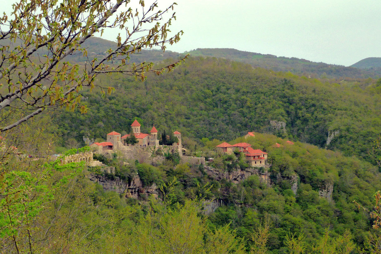 Motsameta monestary Georgia